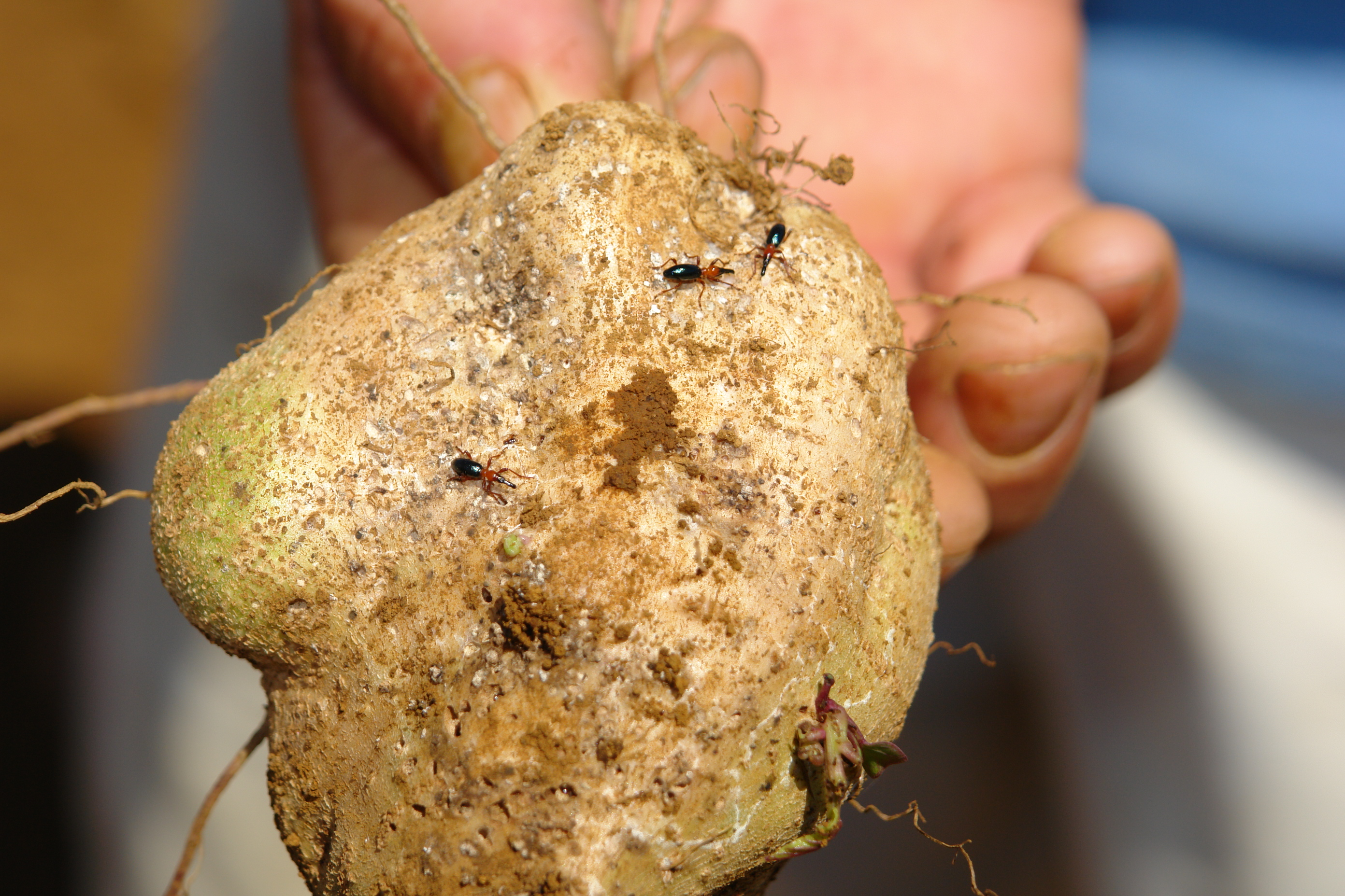 Sweetpotato weevils (Cylas formicarius).